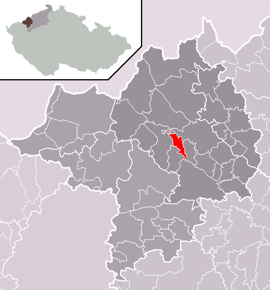 Location of Černovice municipality within Chomutov District and administrative area of Chomutov as a Municipality with Extended Competence.